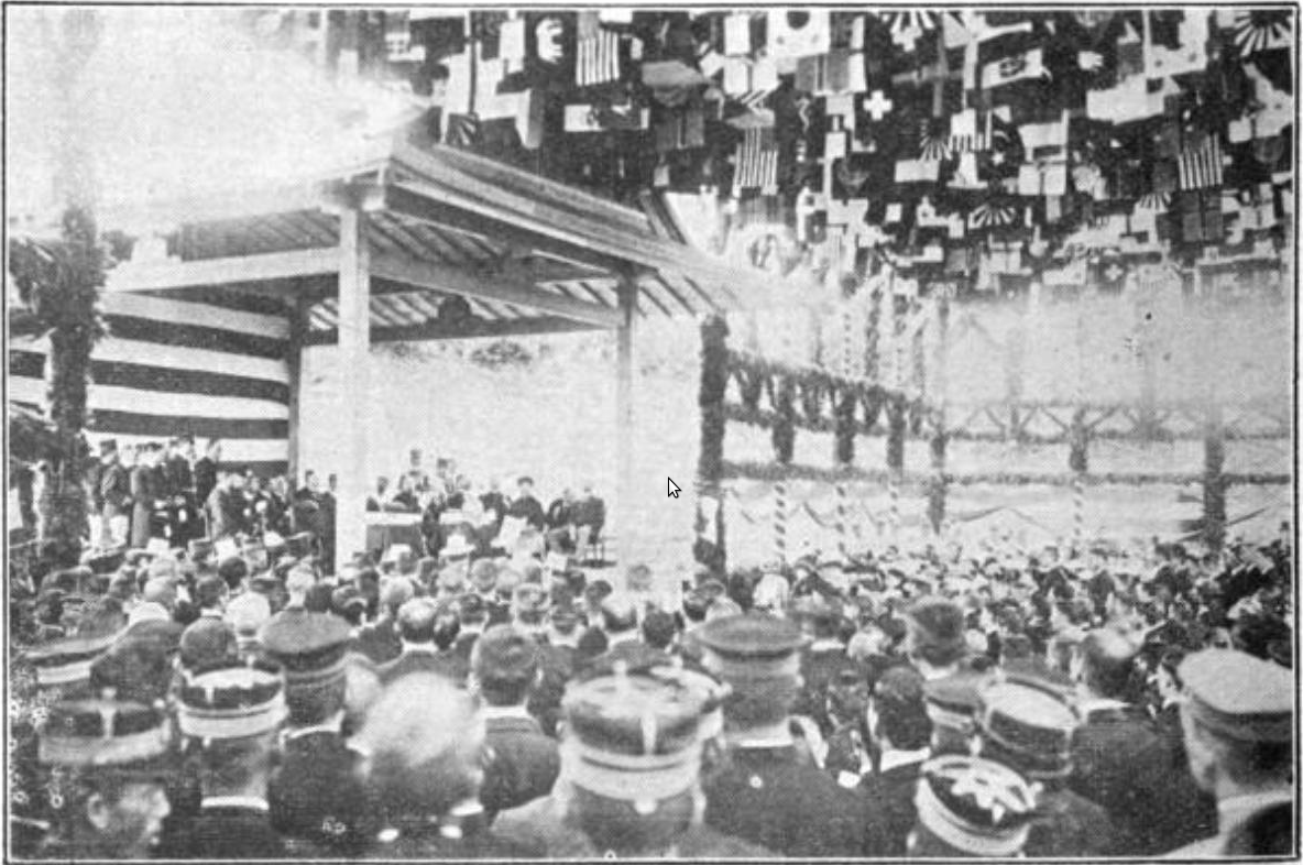 The scene of formal opening of Gyeongbu Train - inside of ceremony